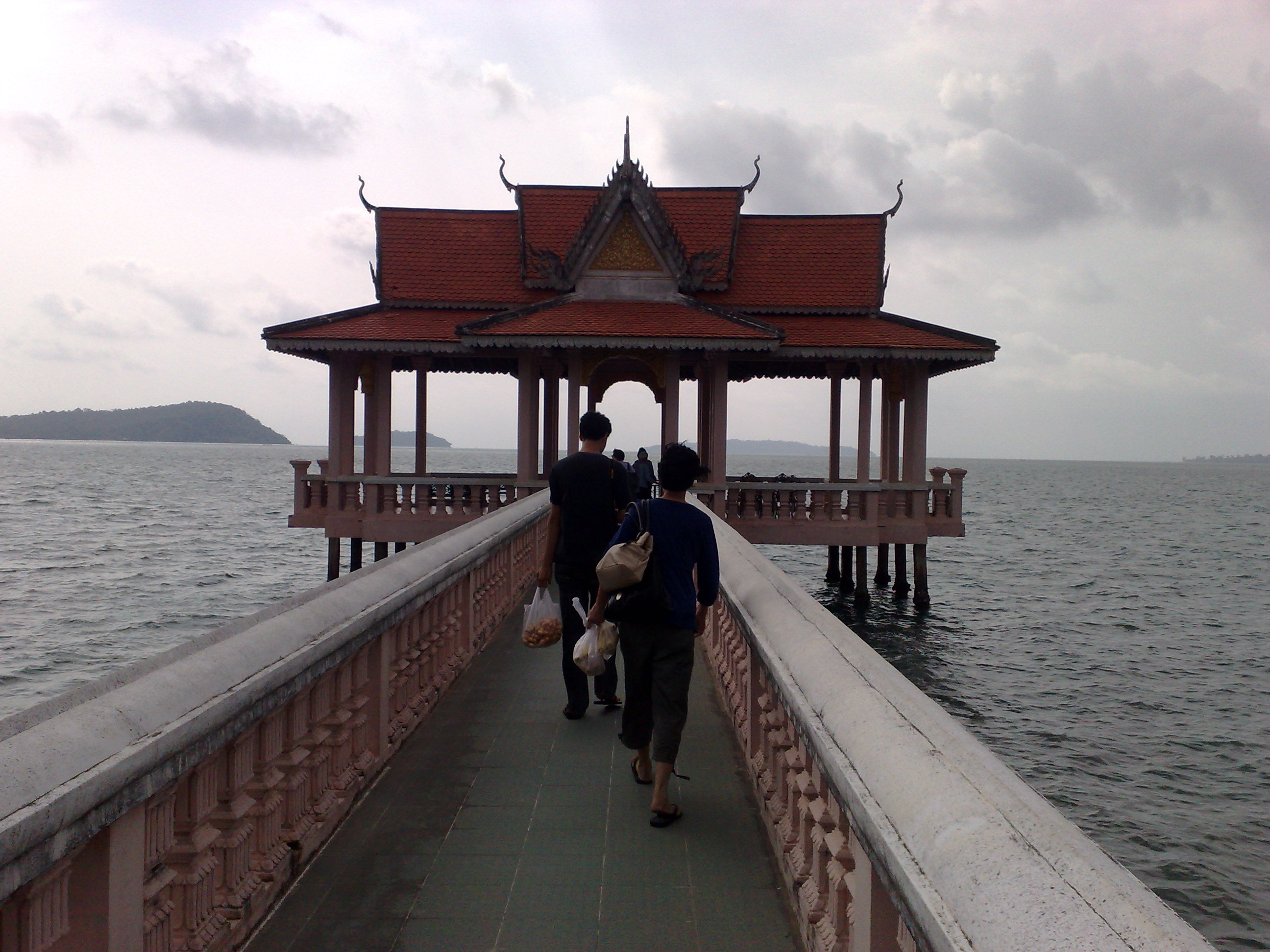 Pavilion in Kompong Som in Cambodia.